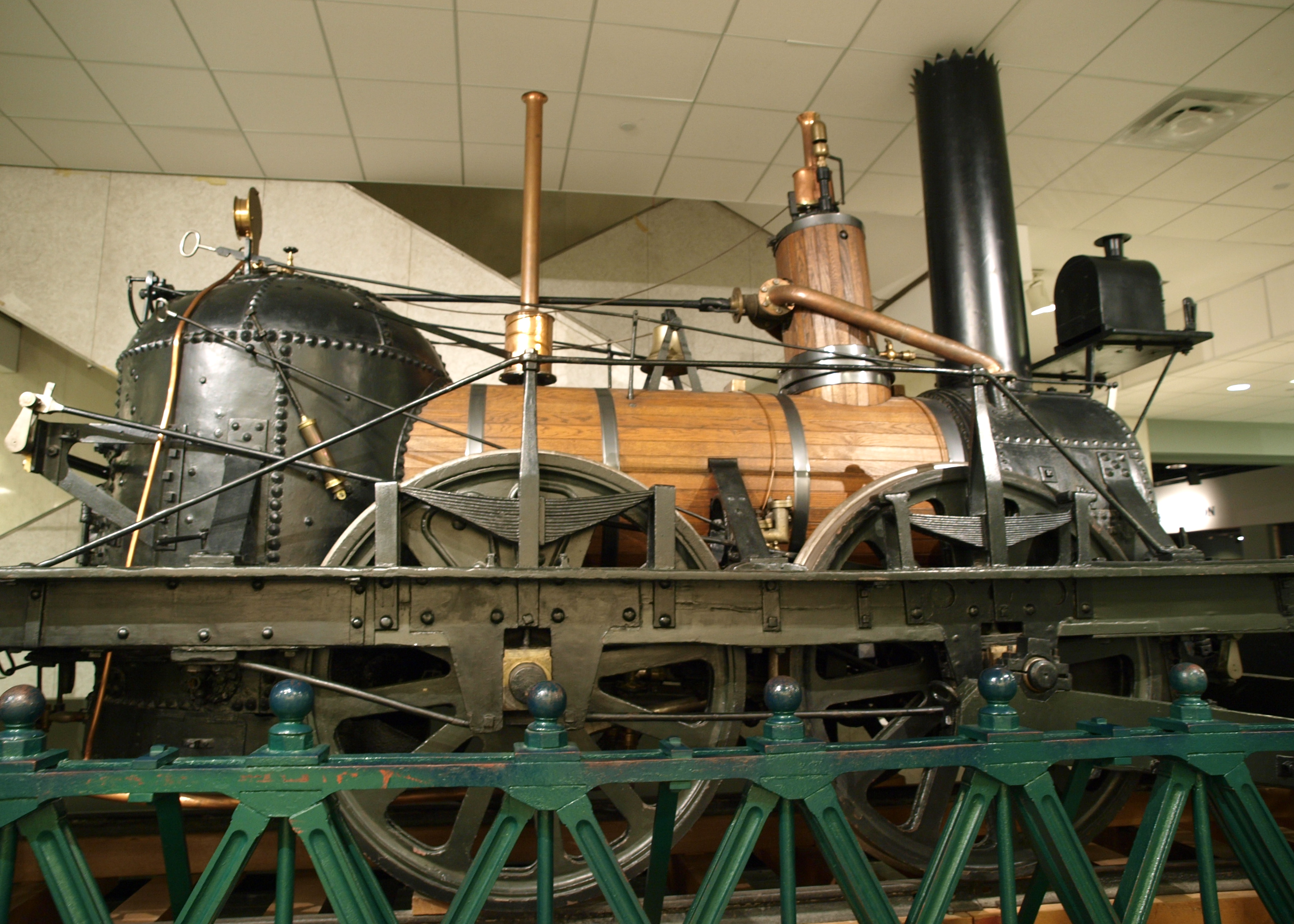 "John Bull" locomotive, National Museum of American History, Washington, D.C.